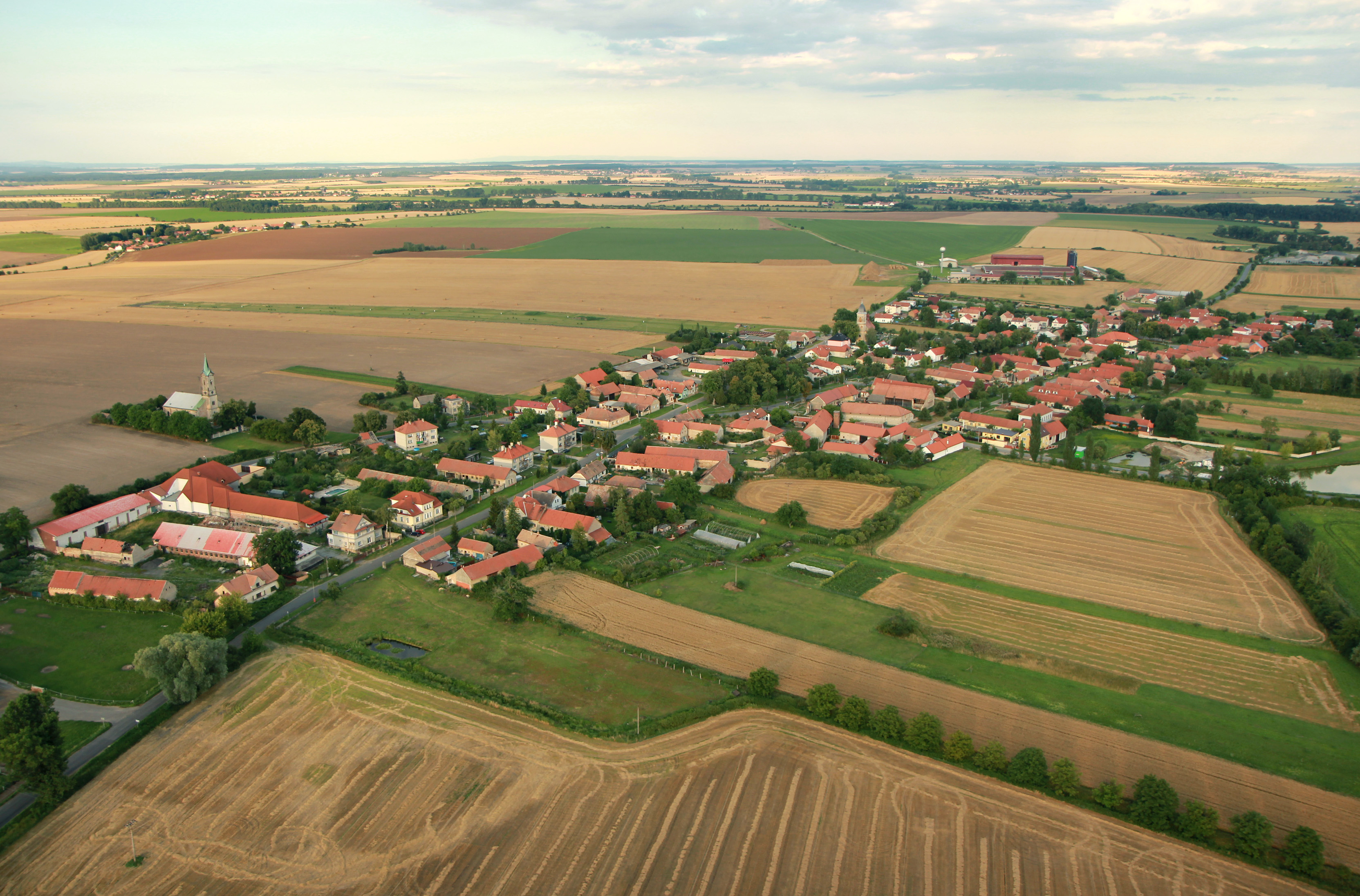 West view of Chleby village, Czech Republic